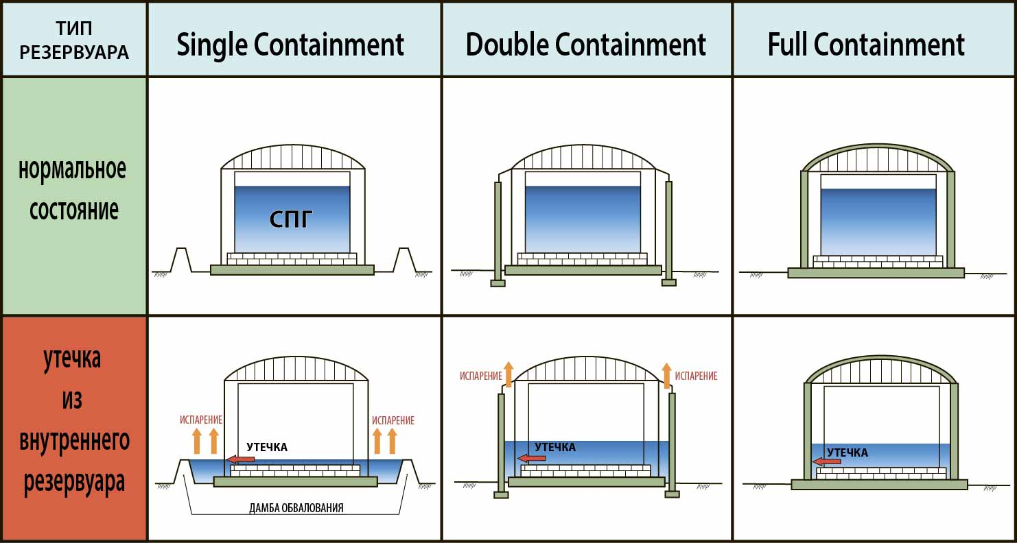 Type of LNG tanks of regazifications terminals